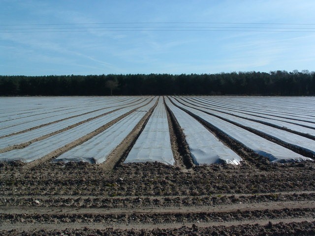 Polythene Field Newly laid polythene sheeting on ploughed field just north of Stonebridge Norfolk. This is known as Floating Row Cover it provides crop protection against bad weather, cold, wind and insects. It creates a thermal effect for growing plants by increasing temperature and maintaining humidity.